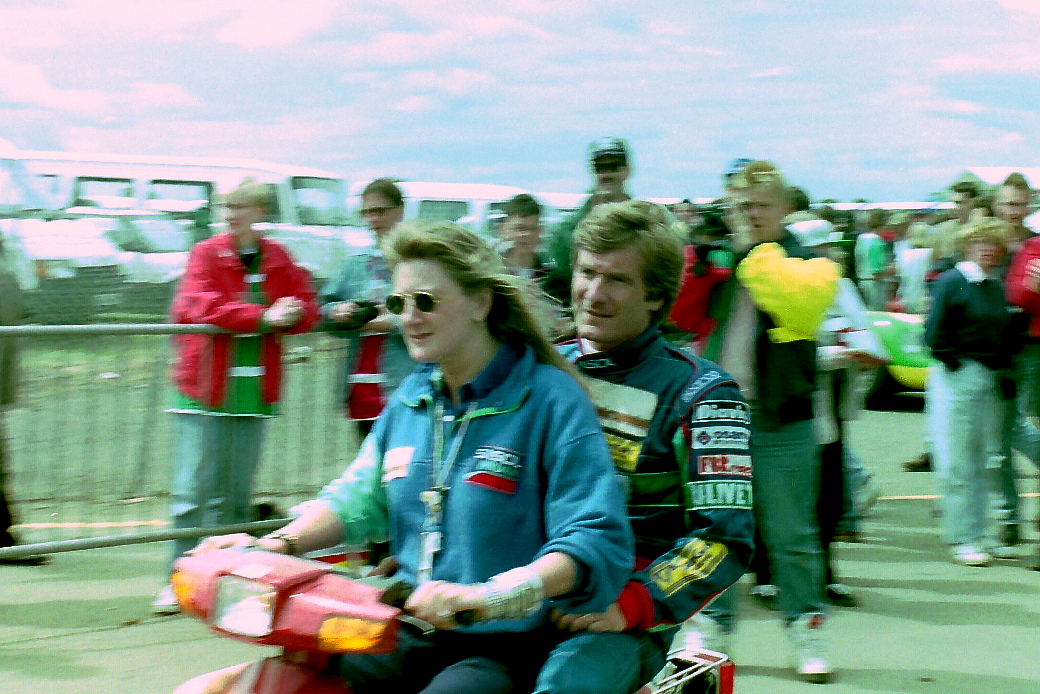 Thierry Boutsen hitches a lift from Louise Goodman in the paddock before the 1993 British Grand Prix